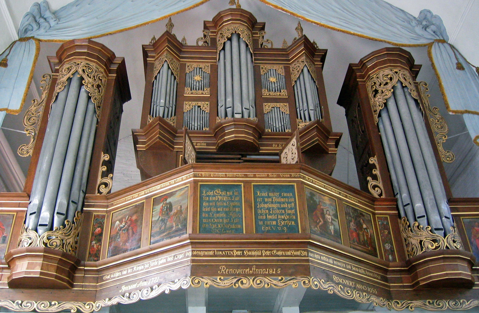 Organ in Steinkirchen